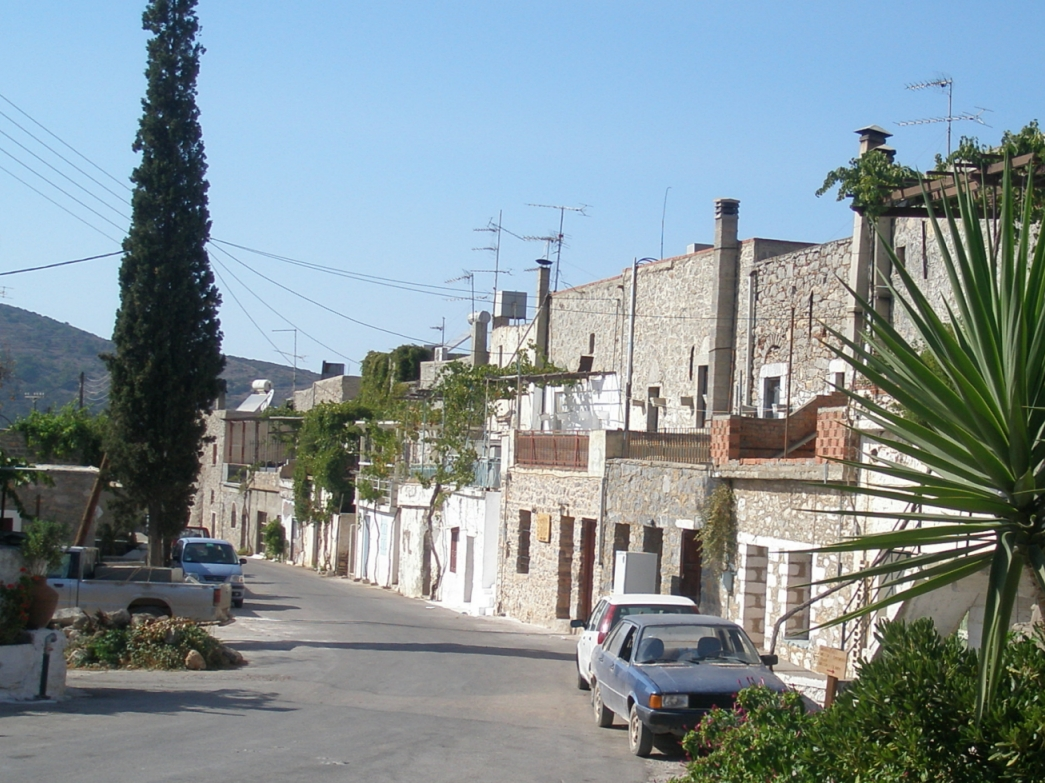 External view of the village of Mesta at Chios island